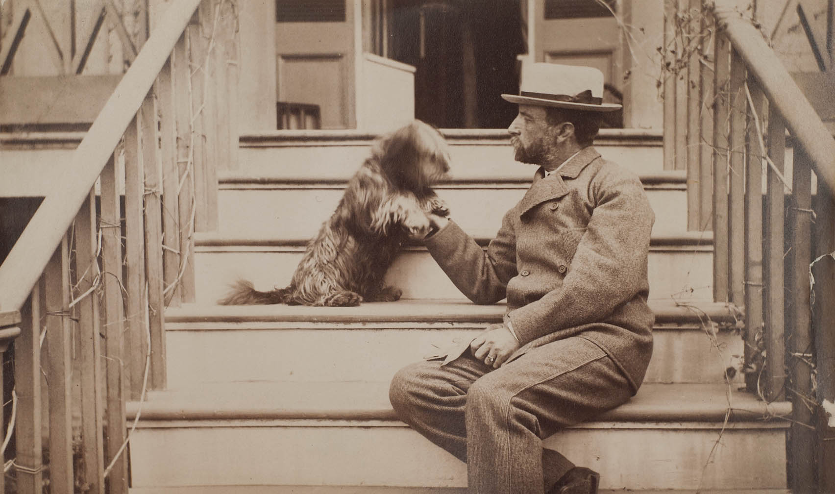 Henry Adams seated with dog on steps of piazza. Photograph by Marian Hooper Adams, circa 1883. Album page: 17.4 cm x 25.2 cm; image: 11.7 cm x 19.3 cm. From the Marian Hooper Adams photographs Photo 50.50 (Album 8, page 3) with caption "H. Adams & Marquis" written by Marian Hooper Adams. Courtesy of the Massachusetts Historical Society.